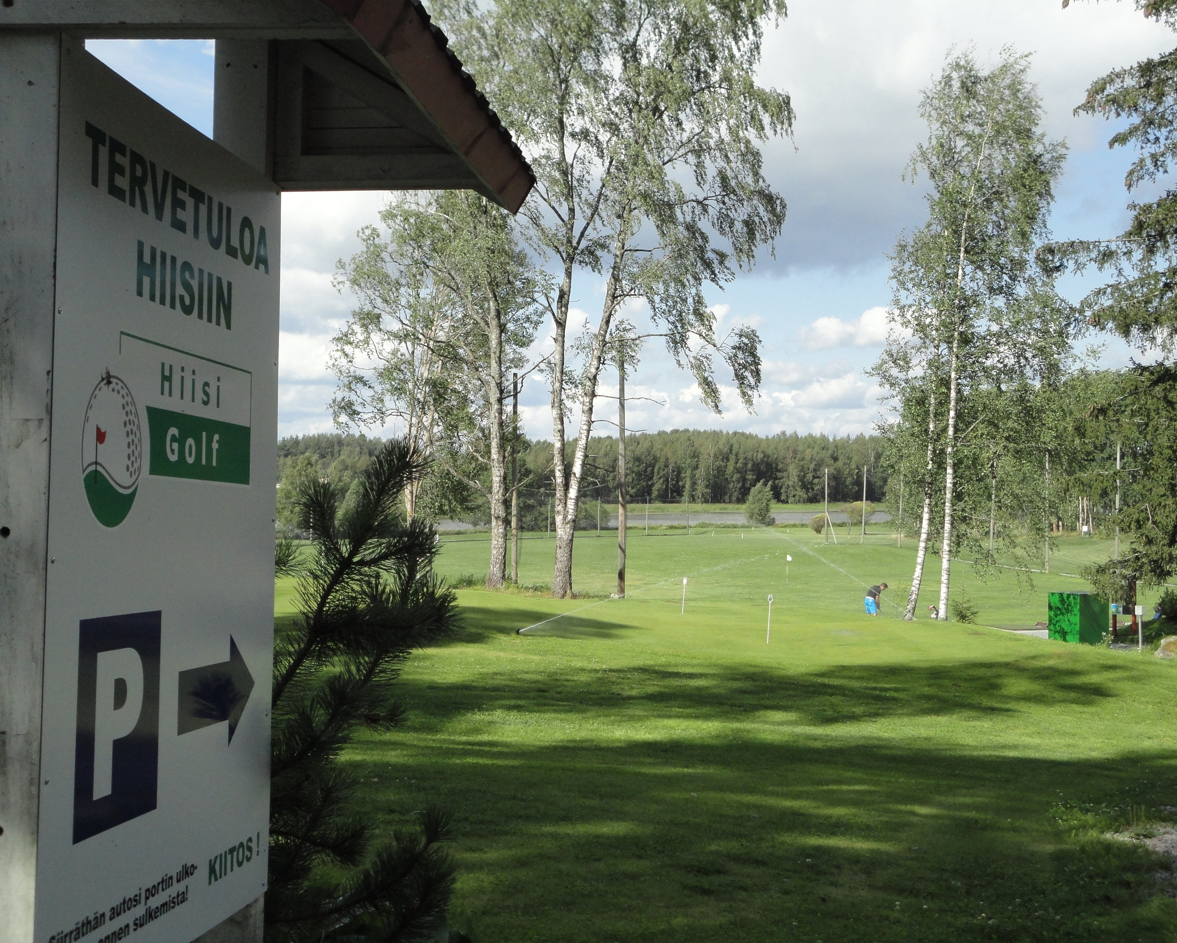 Hiisi-Golf, Lempäälä, Finland